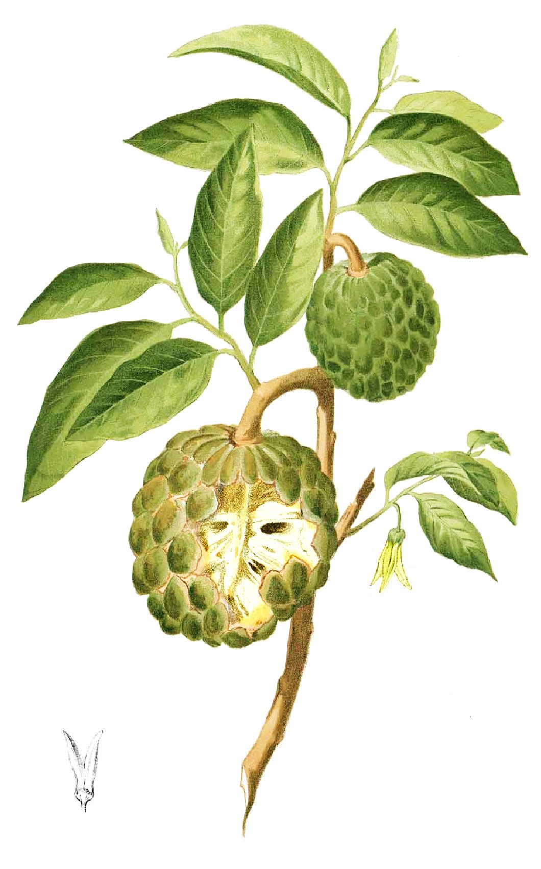 Plate from book